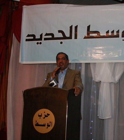 Abu al-Ila Madi the President of Al-Wasat Party